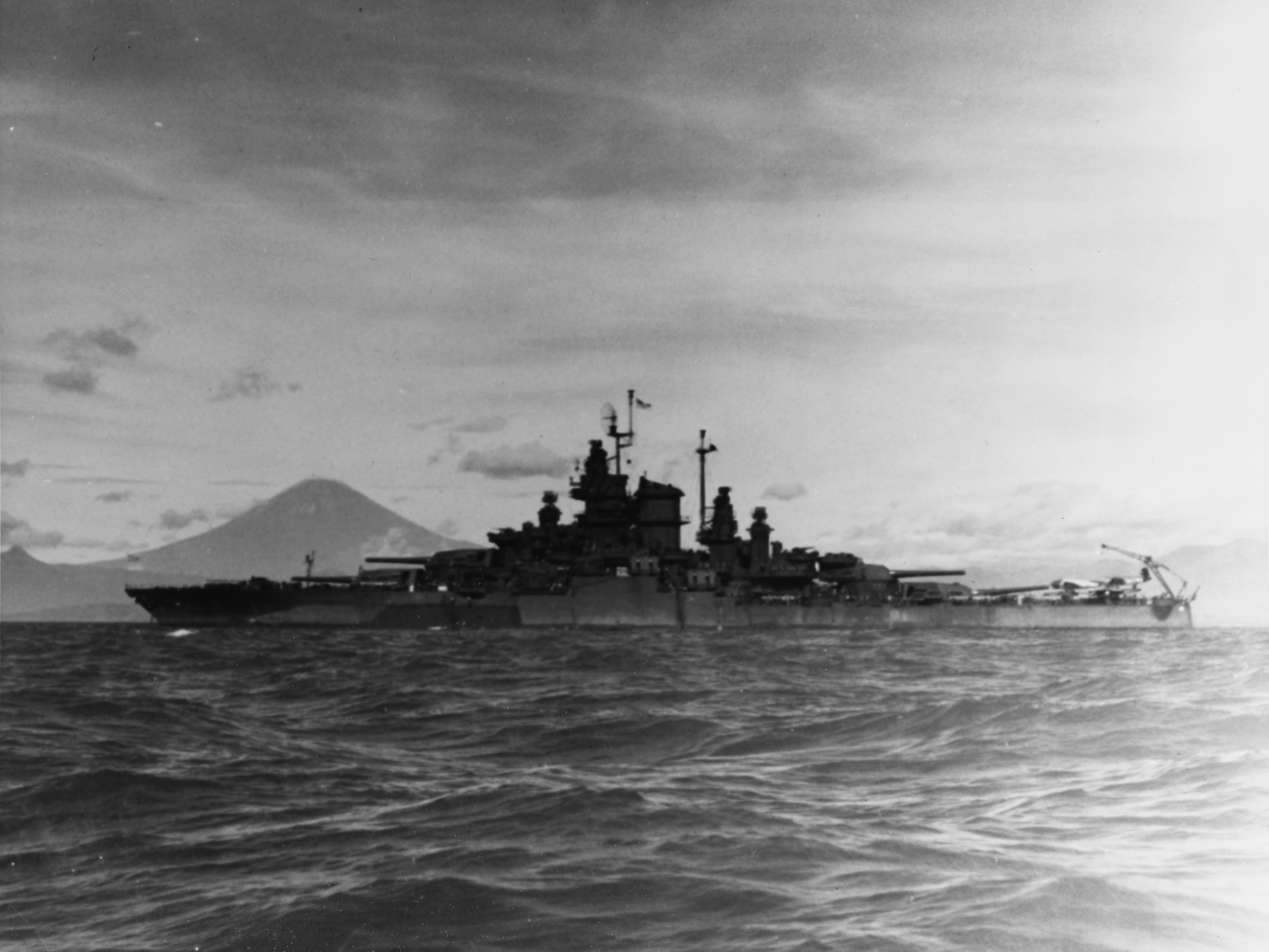 The U.S. Navy battleship USS West Virginia (BB-48) anchored in Sagami Wan, Japan, outside of Tokyo Bay, circa late August 1945. She is painted in Camouflage Measure 32, Design 7D. Mount Fuji is in the background.